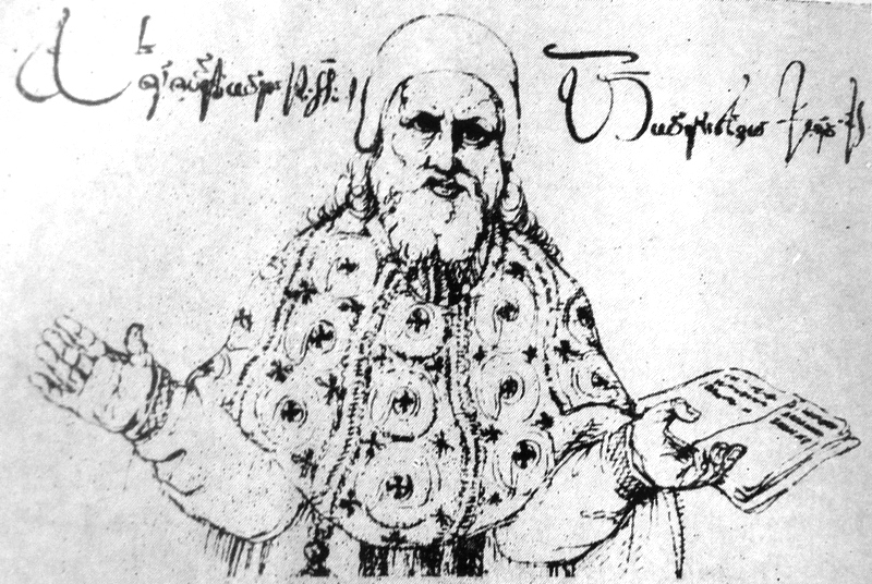 Niciforo Irbachi, a Georgian bishop